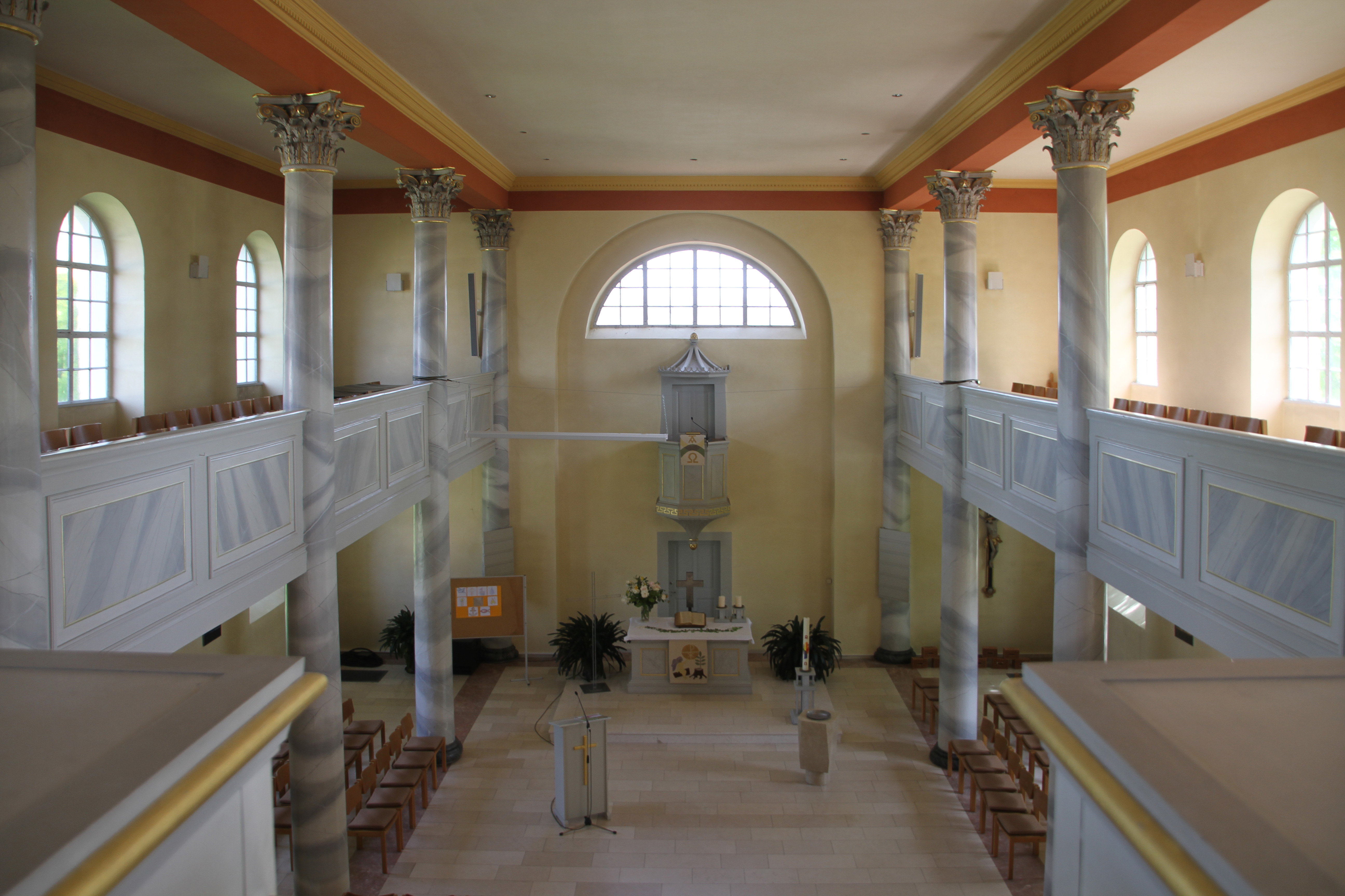 Kreuzkirche in Lichtenau-Scherzheim, interior decoration.